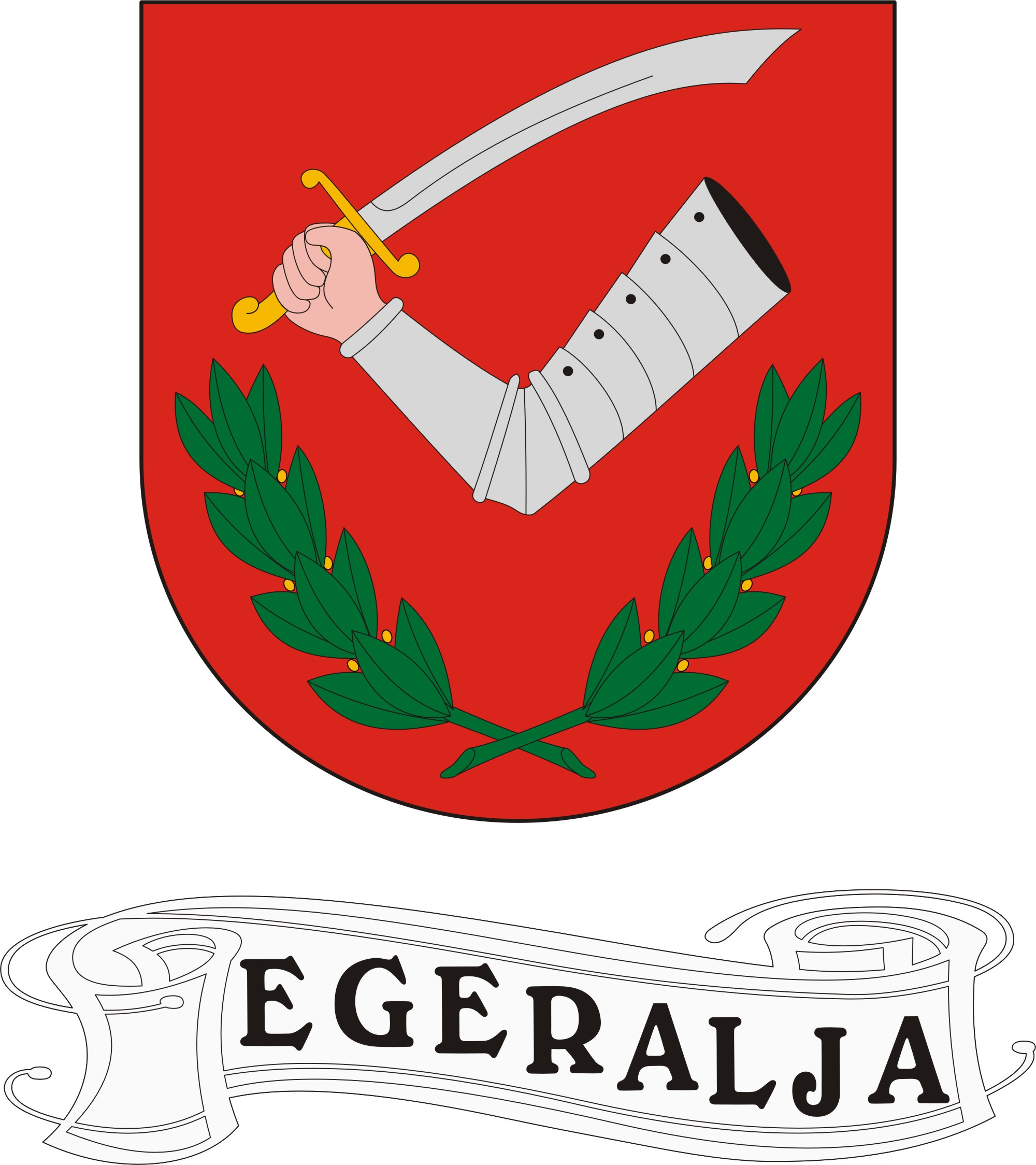 Coat of arms of Egeralja, Hungary